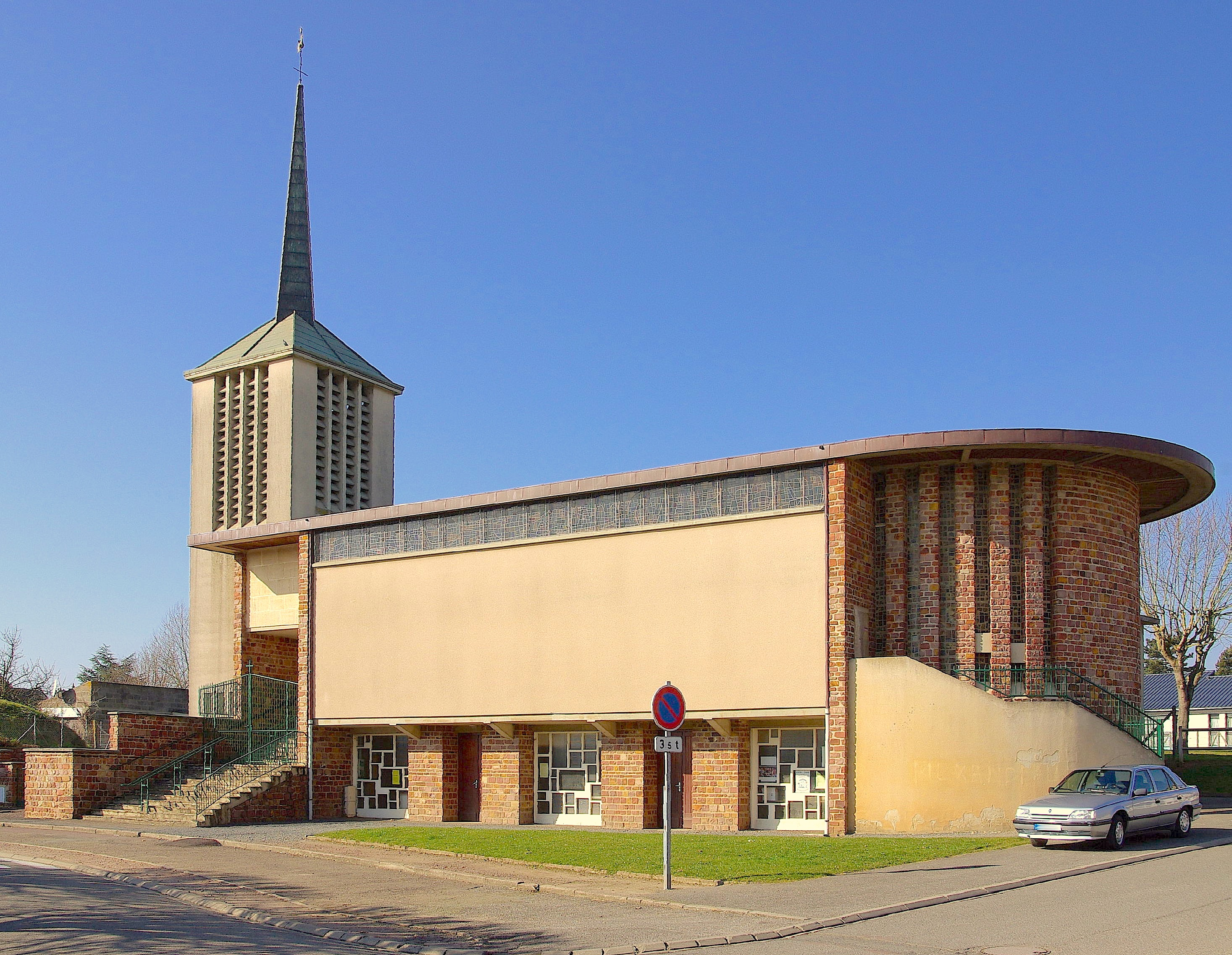 The church of St Martin-de-Fontenay